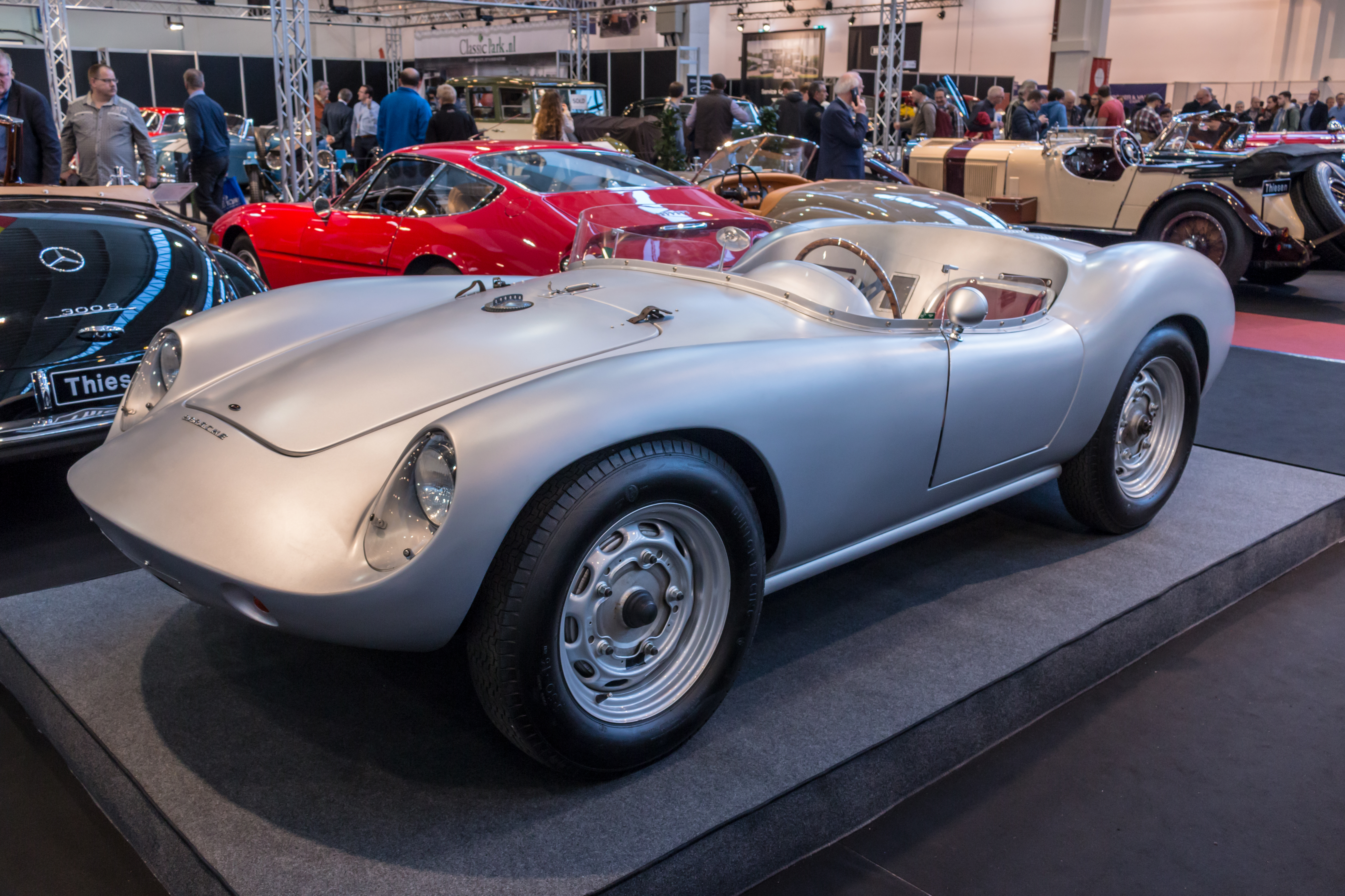 Porsche, Techno-Classica 2018, Essen